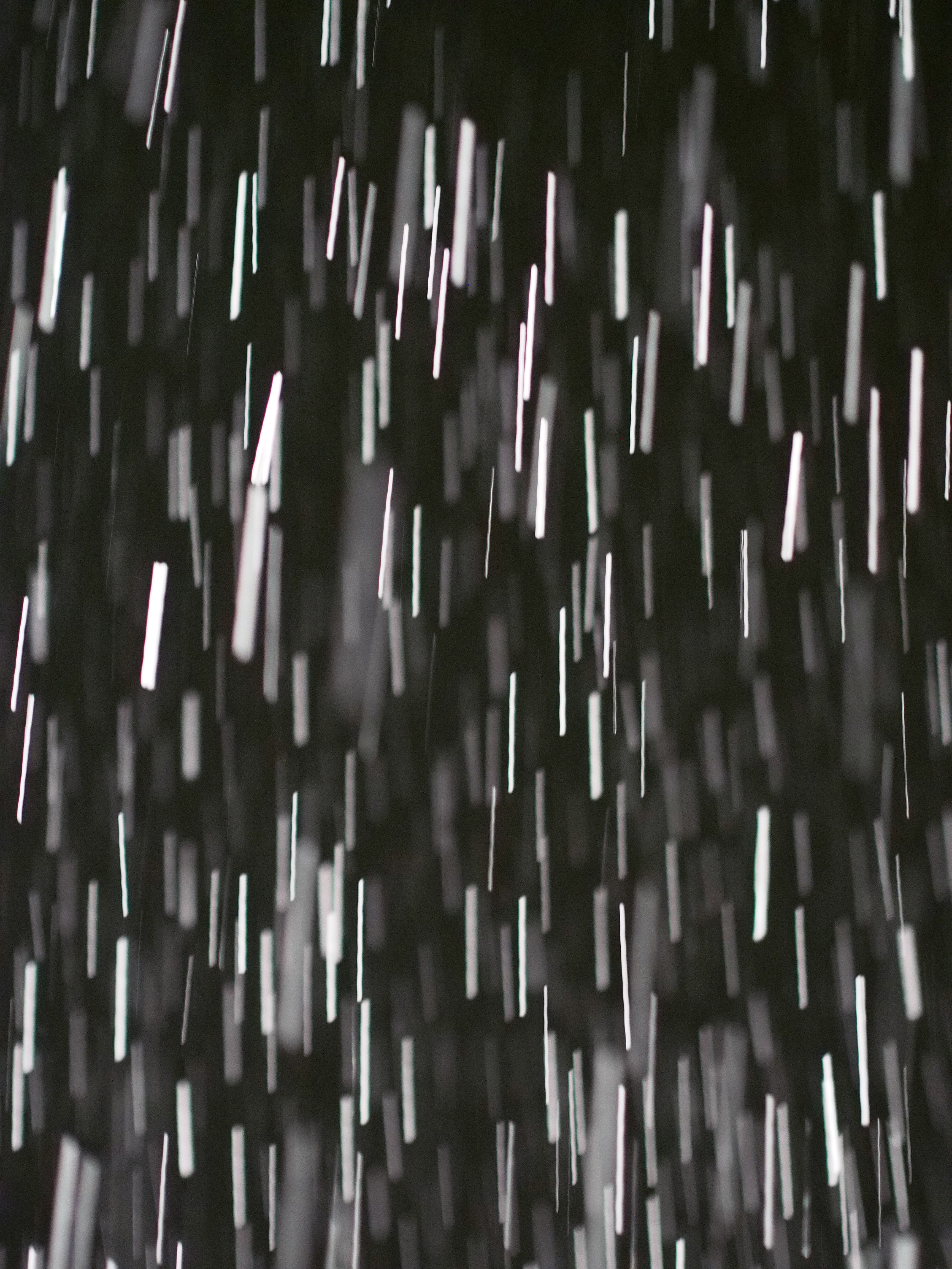 Heavy hail shower, lit by a halogen lamp